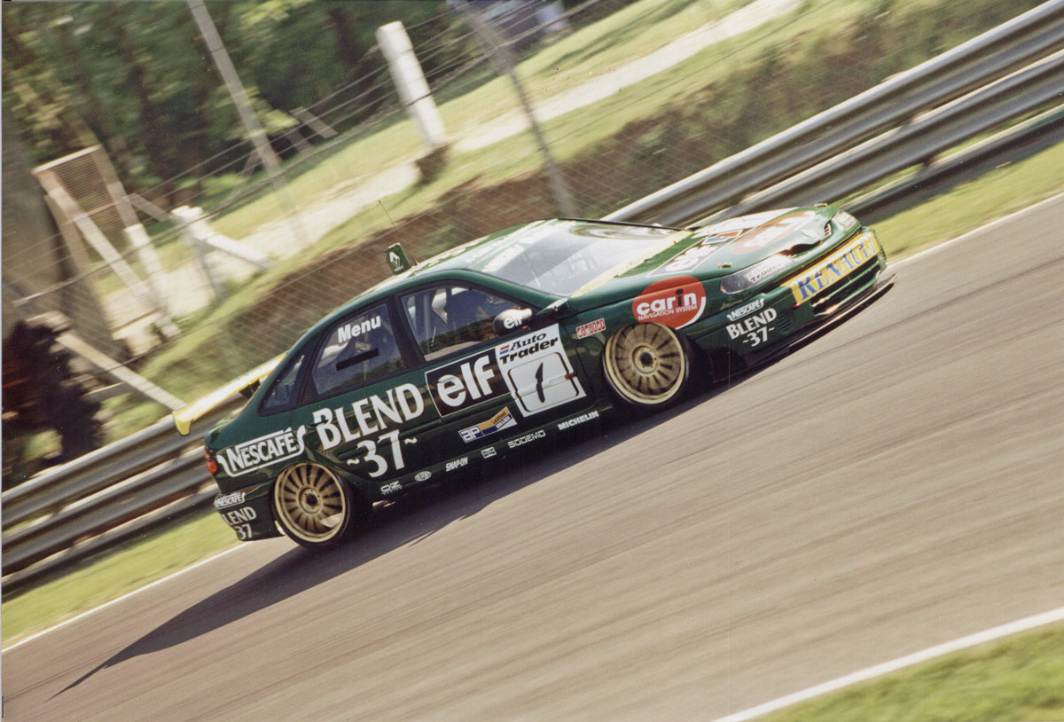 Alain Menu driving for Renault in the 1998 British Touring Car Championship.